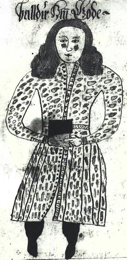 An illustration of the Norse god Baldr, from an Icelandic 17th century manuscript. A scan of a black and white photography.